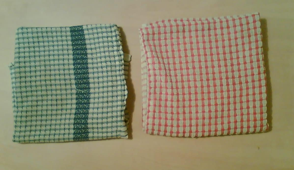 Blue and red towels, for use in a Kosher kitchen